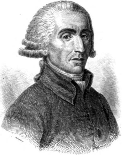 Joseph-Antoine Cerutti (1738-1792), Italian-born French Journalist.